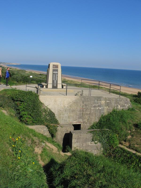 Omaha Beach fortifications